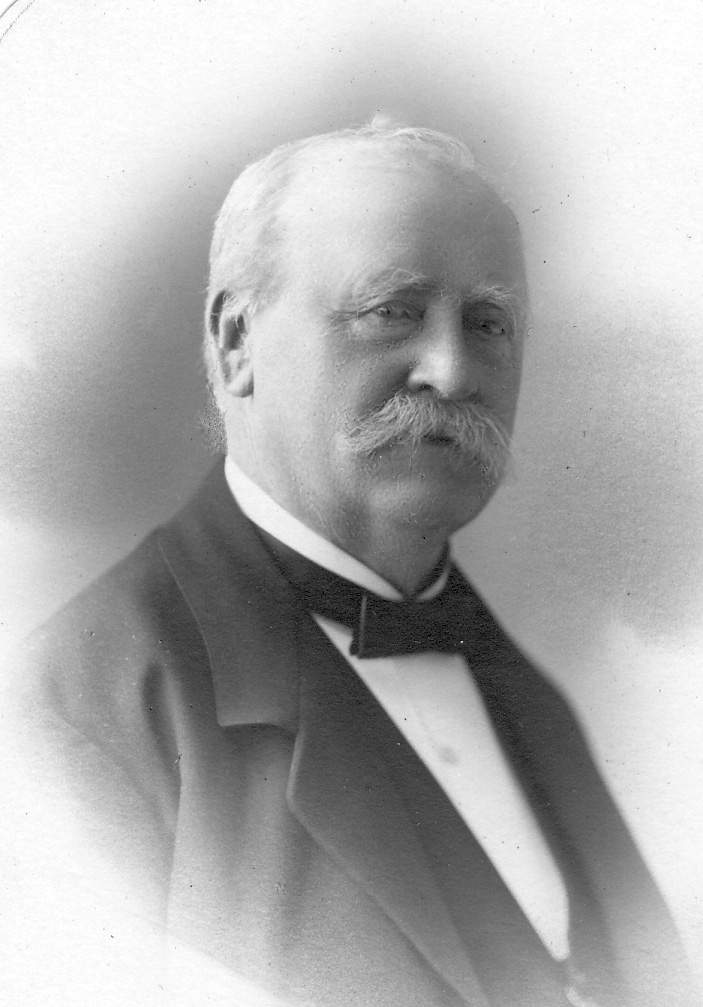 Ulrik Leander from Sweden